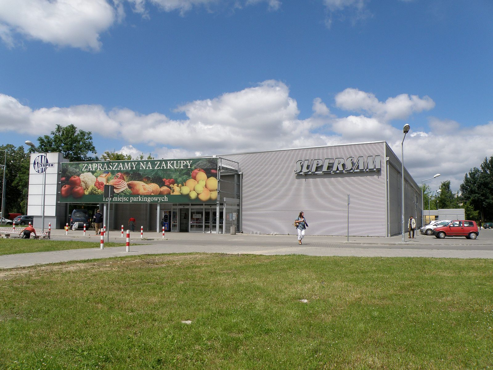 New building of SuperSam shopping mall in Mokotów district, Warsaw